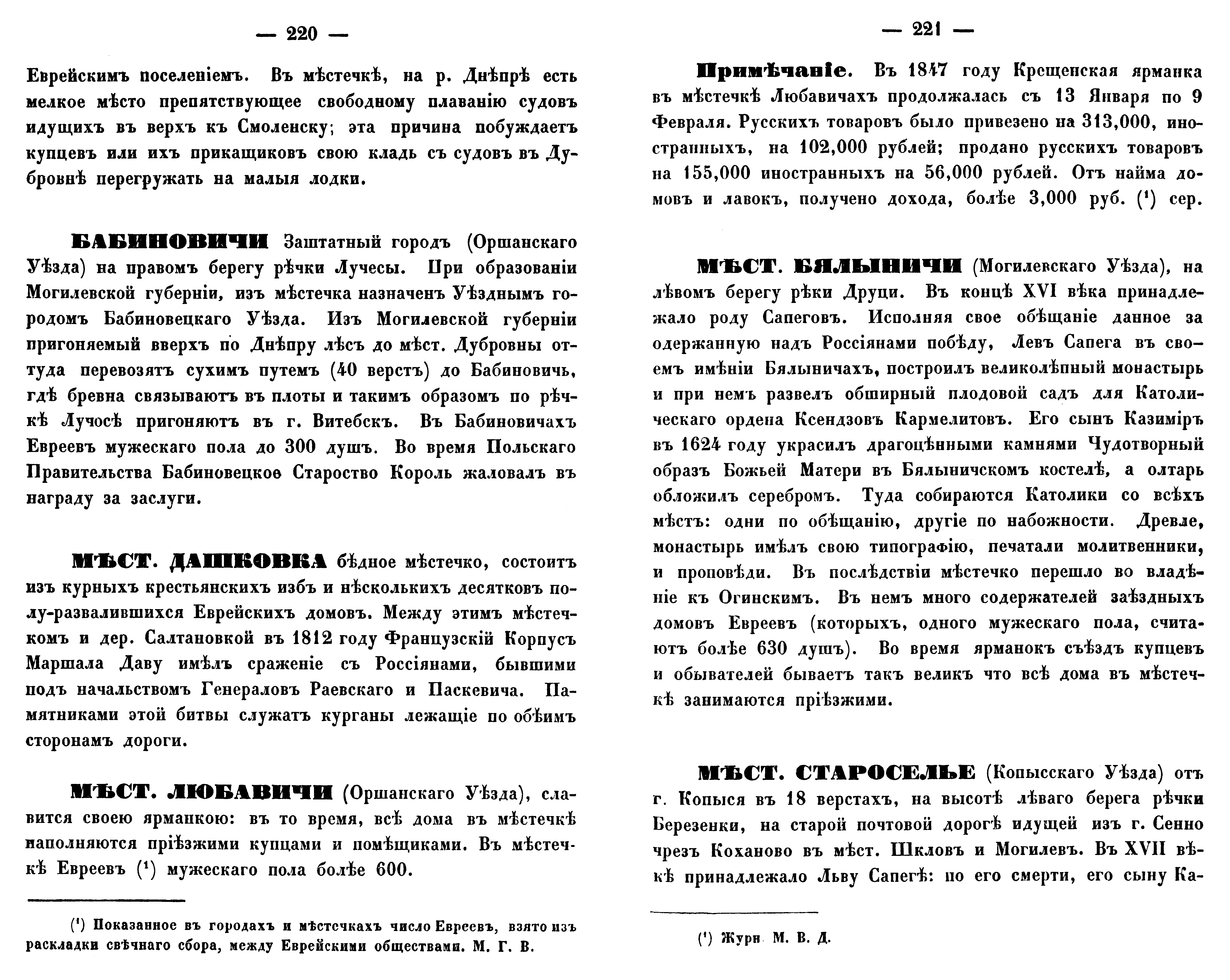 Scan from the book "Historical Data about Notable Places in Byelorussia" by Mikhail Osipovich Byez-Kornilovich